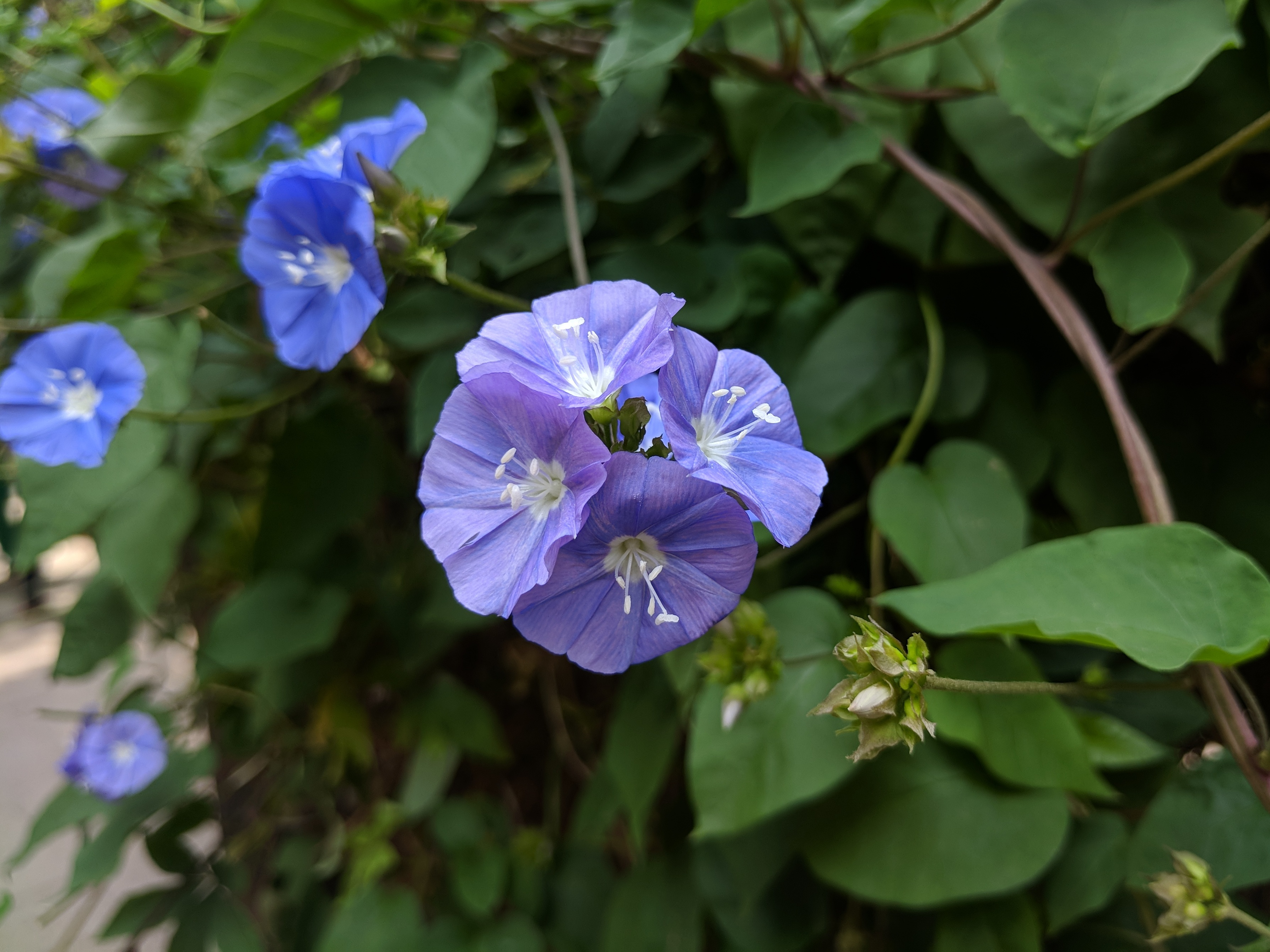 Jacquemontia pentanthos